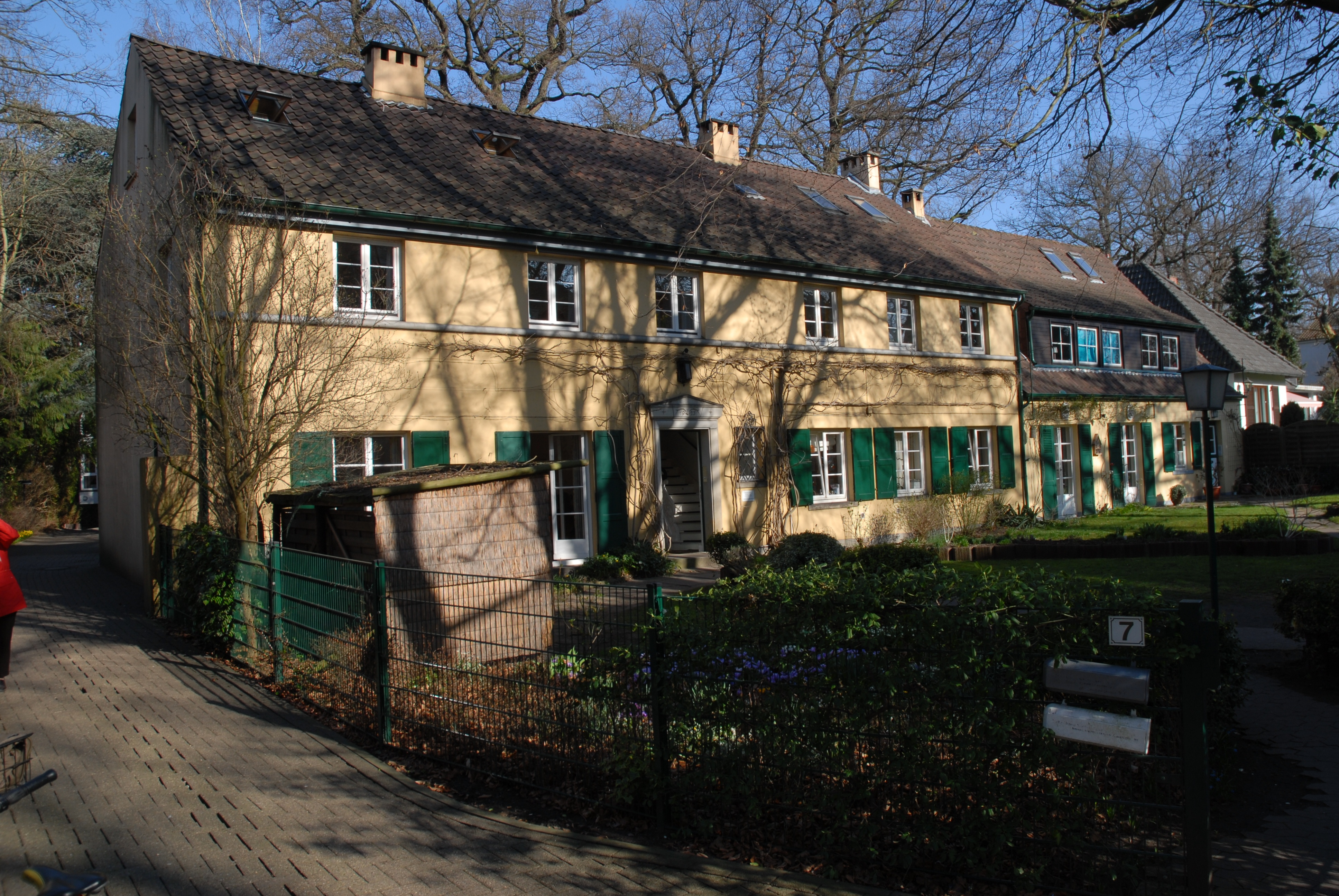 Wohnhaus und Atelier des Architekten Otto Blendermann in der Schubertsstraße 7 (ab 1922)